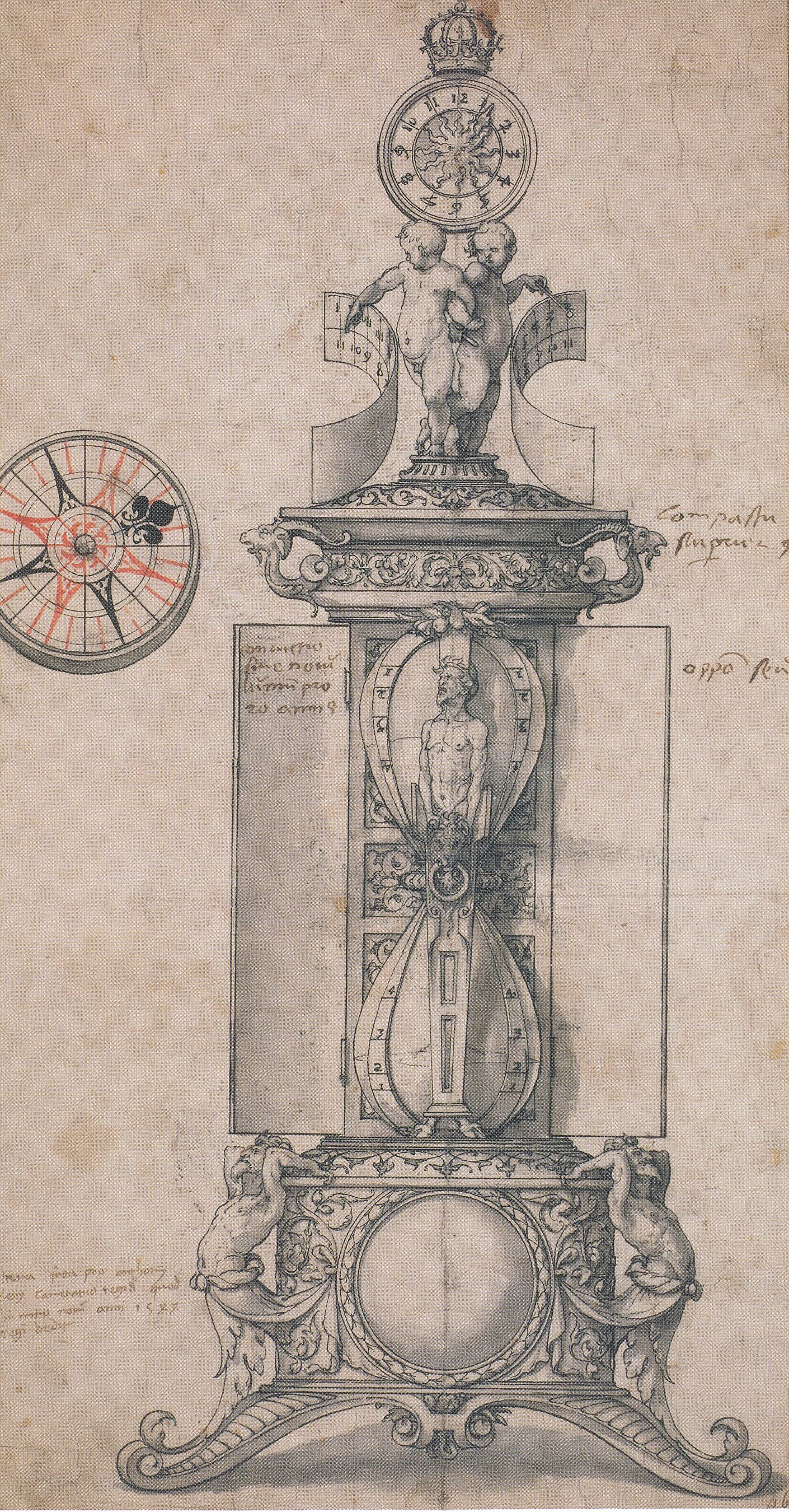 Design for Anthony Denny's Clocksalt. Pen and black ink on paper with grey wash and red wash on the compass, 41 × 21.3 cm, British Museum, London. Holbein designed this clocksalt—a combination of a clock, hourglass, sundial, and compass—for Anthony Denny, whose portrait he had drawn two years earlier. Denny was a rising figure in the royal court and went on to control the dry stamp of Henry VIII's signature at the end of the reign and play a key role in the regency council during the reign of Edward VI. Denny seems to have been a personal friend of Holbein: he lived in the same neighbourhood and lent him money, which Holbein paid back in the terms of his will. Holbein died in 1543, the same year he designed this clocksalt. A note on the drawing shows that Denny presented a clock made from this design to King Henry, who owned a number of clocks and clocksalts, as a New year's gift. It would have been an expensive item, made of precious metals. Holbein had often designed for goldsmiths since his training in Augsburg, a centre of the goldsmiths' trade. Two of the notes on the sketch are in the hand of Holbein's friend the royal astronomer Nicholas Kratzer, who probably assisted in the technical design of the piece. (Foister, p. 77.)